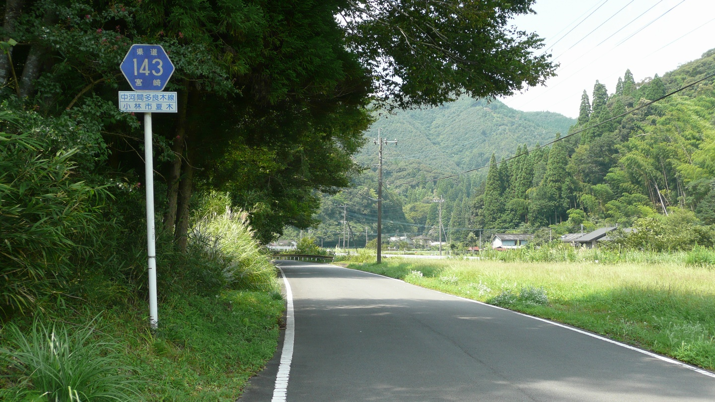 Miyazaki Prefectural Road 143 (Natsuki, Suki, Kobayashi, Miyazaki, Japan)